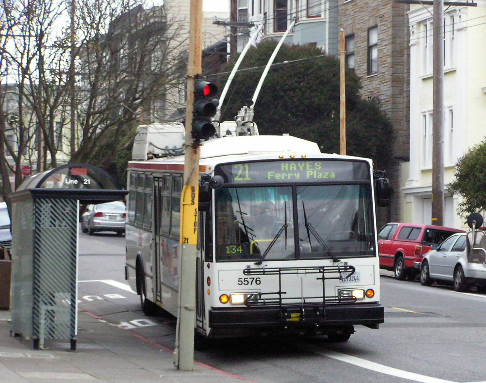 21 Hayes - Downtown and the Ferry Plaza